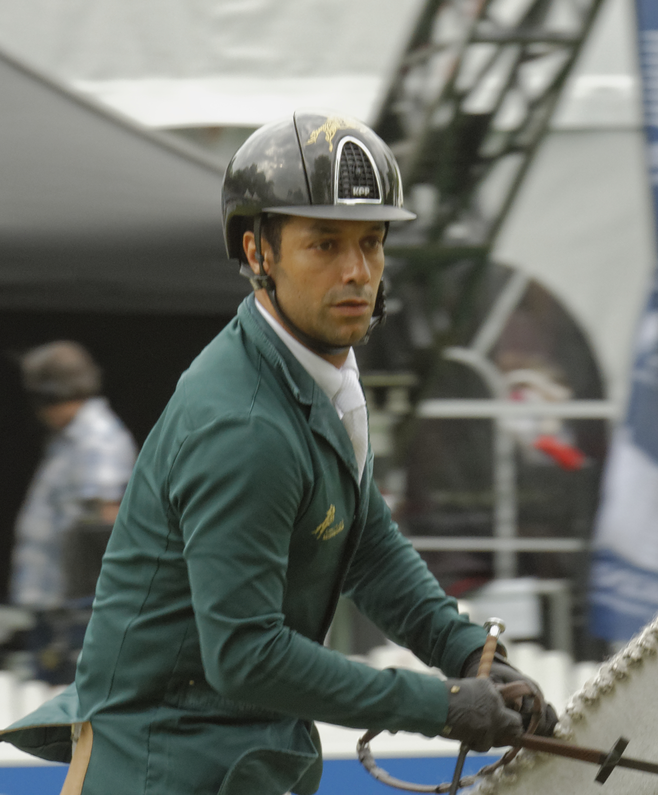 Internationales Pfingstturnier Wiesbaden 2013 The making of this document was supported by the Community-Budget of Wikimedia Germany.